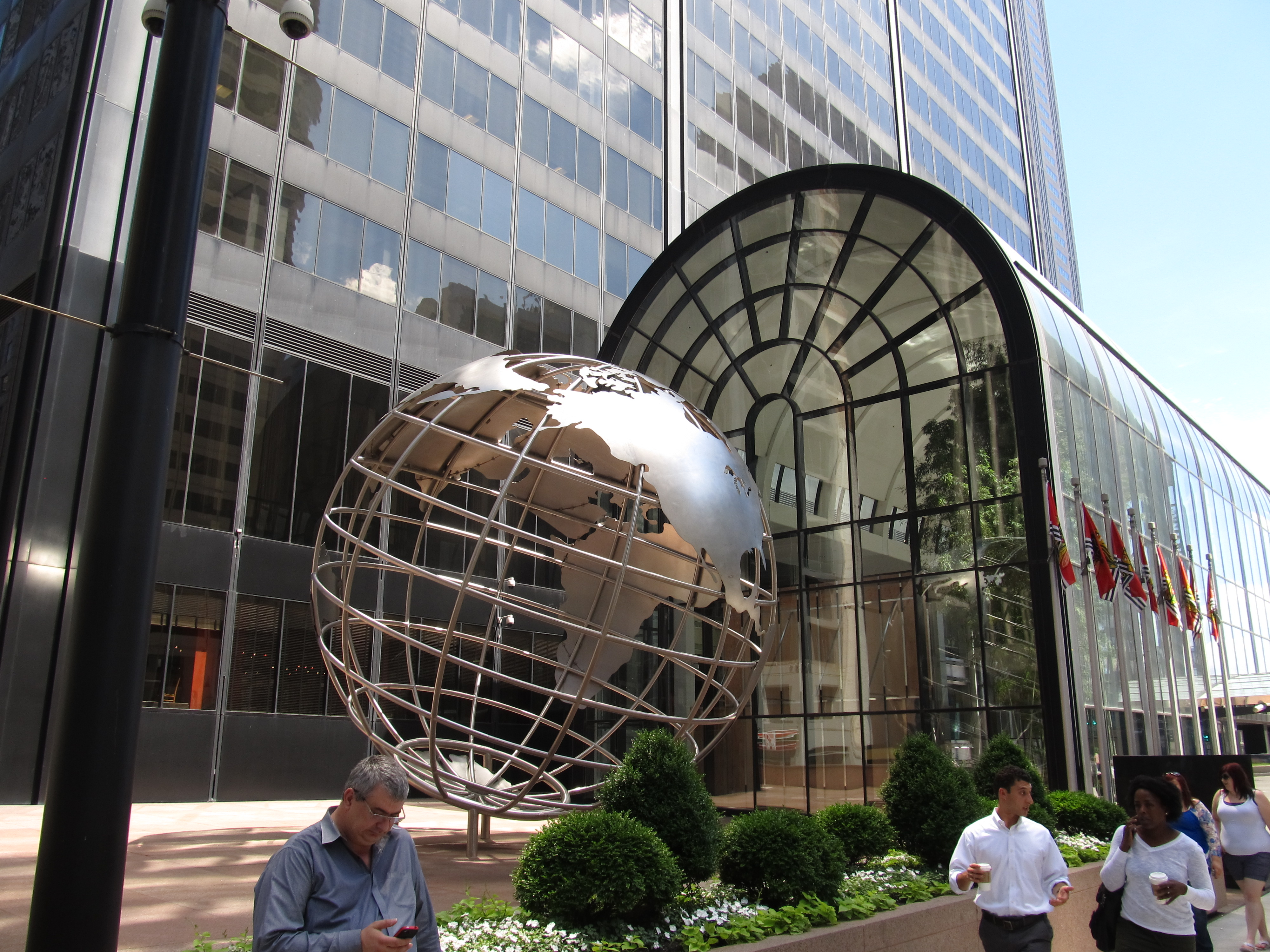 Willis Tower (formerly named and still commonly referred to as Sears Tower) is a 108-story, 1,451-foot (442 m) skyscraper in Chicago, Illinois. At the time of its completion in 1973, it was the tallest building in the world, surpassing the World Trade Center towers in New York, and it held this rank for nearly 25 years. The Willis Tower is the second-tallest building in the United States and the eighth-tallest freestanding structure in the world. The skyscraper is one of the most popular tourist destinations in Chicago, and over one million people visit its observation deck each year. Named the Sears Tower throughout its history, in 2009 the Willis Group obtained the right to rename the building, as part of their lease on a portion of its offices. On July 16, 2009, the building was officially renamed the Willis Tower. On August 13, 2012, United Airlines announced it will be moving its corporate headquarters from 77 West Wacker Drive to the Willis Tower.